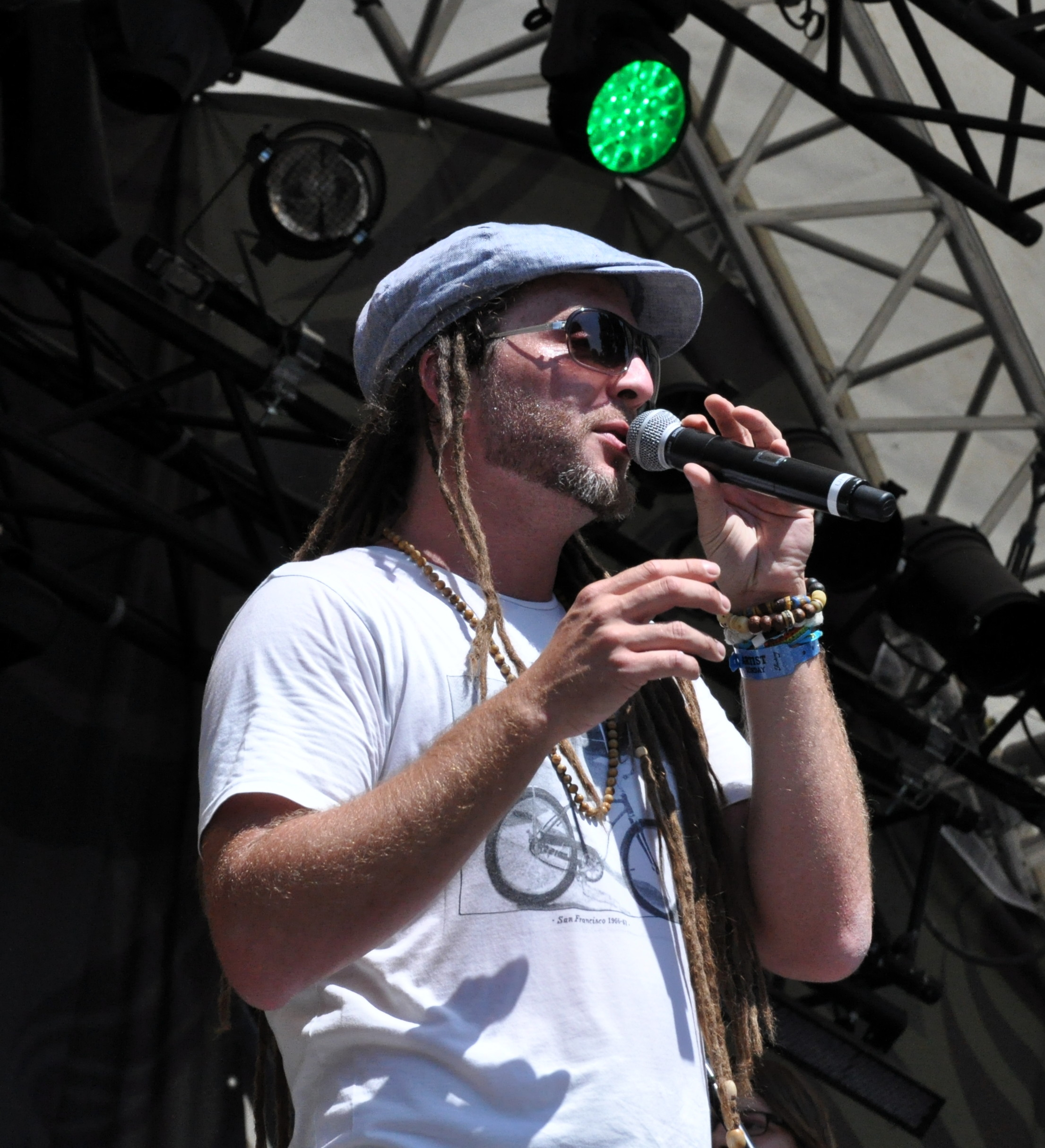 Tschebberwooky at Summerjam festival 2013